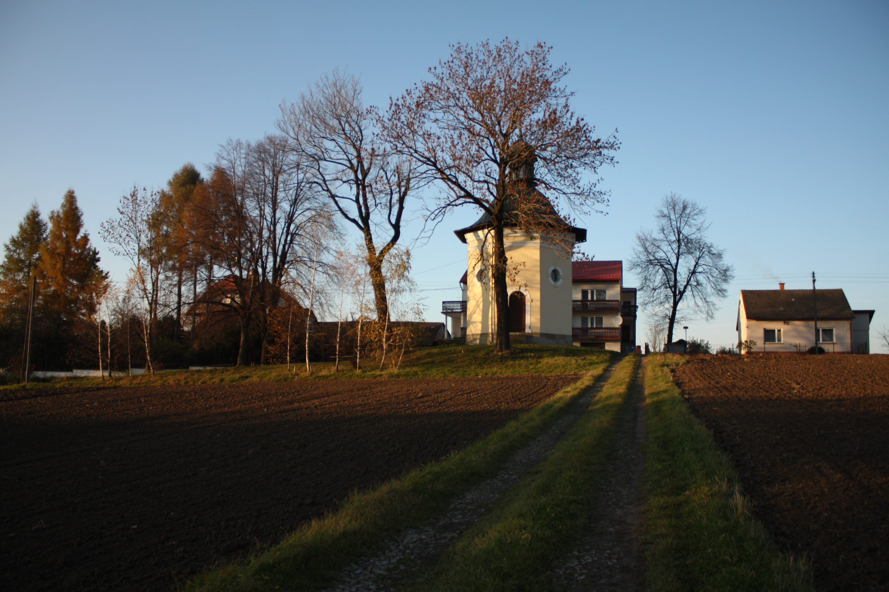 Chapel of the Ascension of Christ